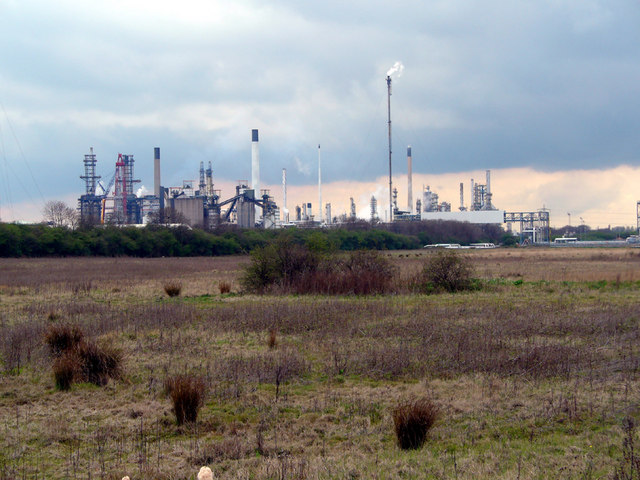 Conoco Oil Refinery Picture taken from Rosper Road near junction with A160 looking approx. West.